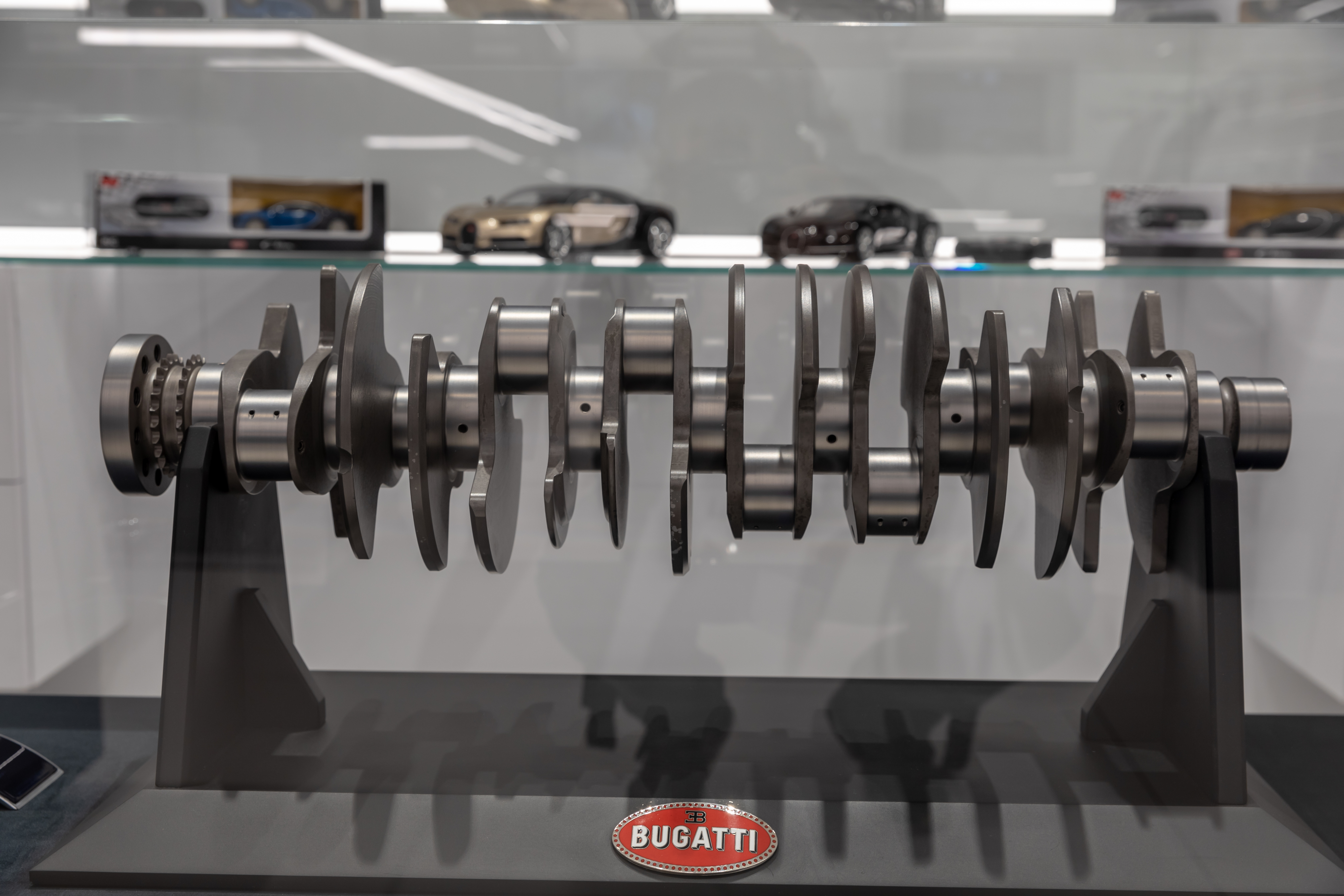 Geneva International Motor Show 2019, Le Grand-Saconnex